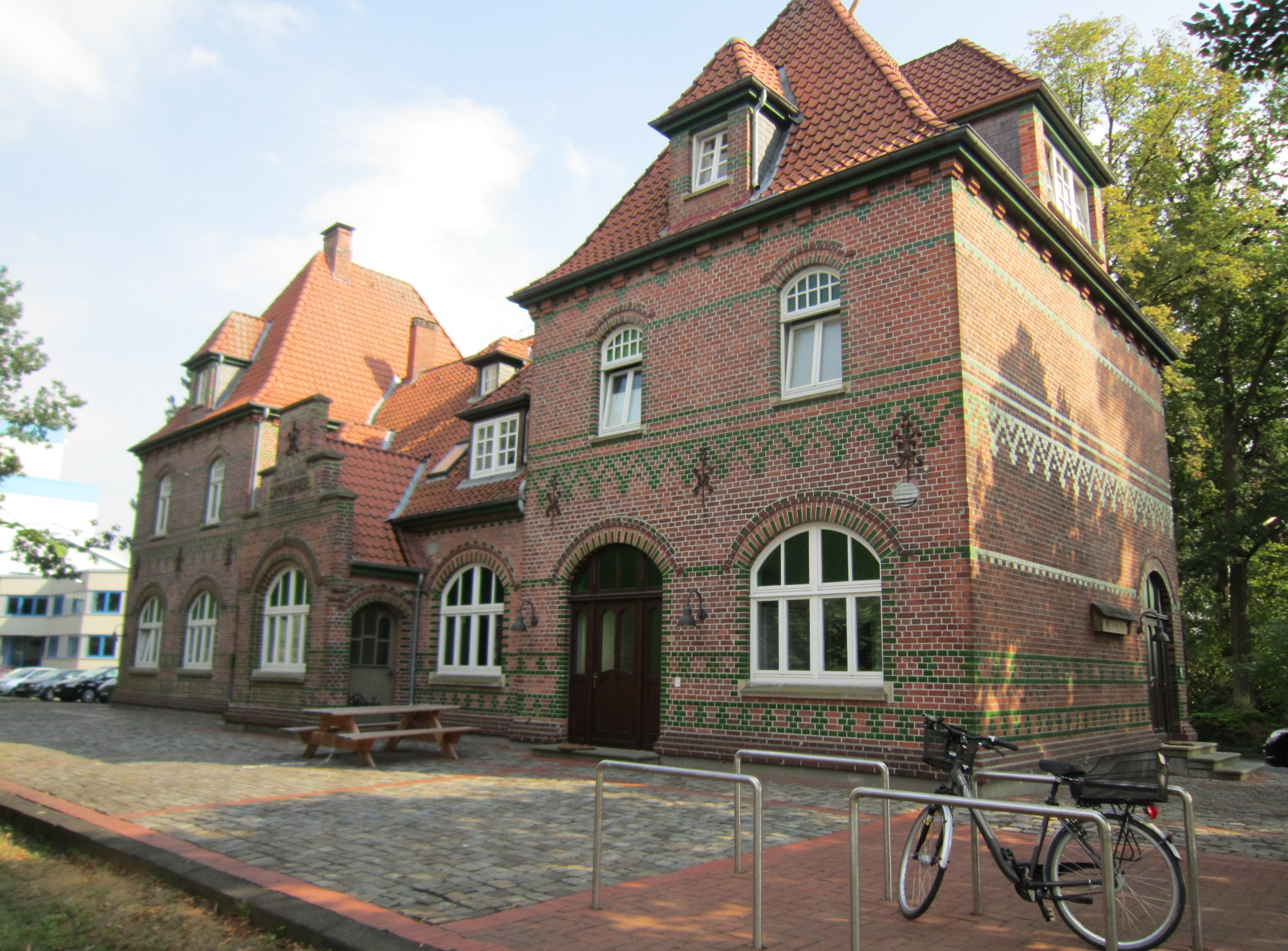 Former train station of Dinklage, now used by "Mischfutterwerk Bröring" as a laboratory